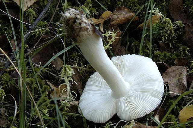 Russula versicolor from Commanster, Belgian High Ardennes .